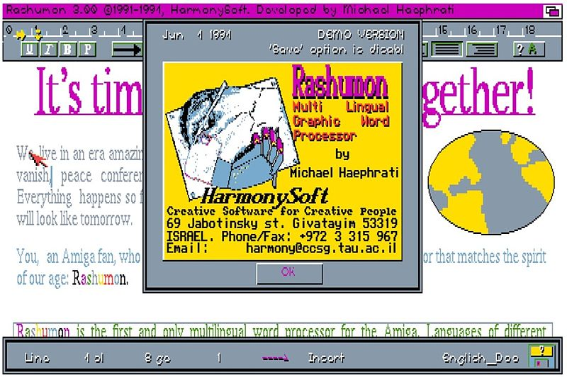 Rashumon - The main screen with the splash screen on top of it